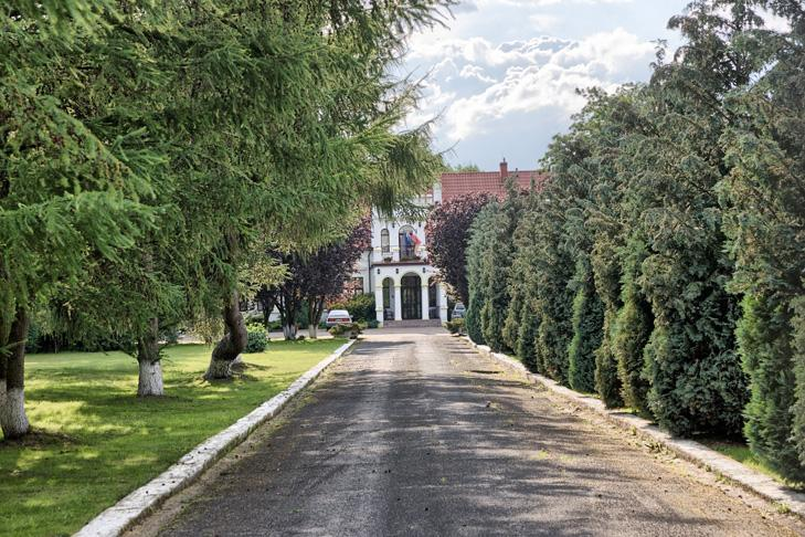 Budzistowo dwór